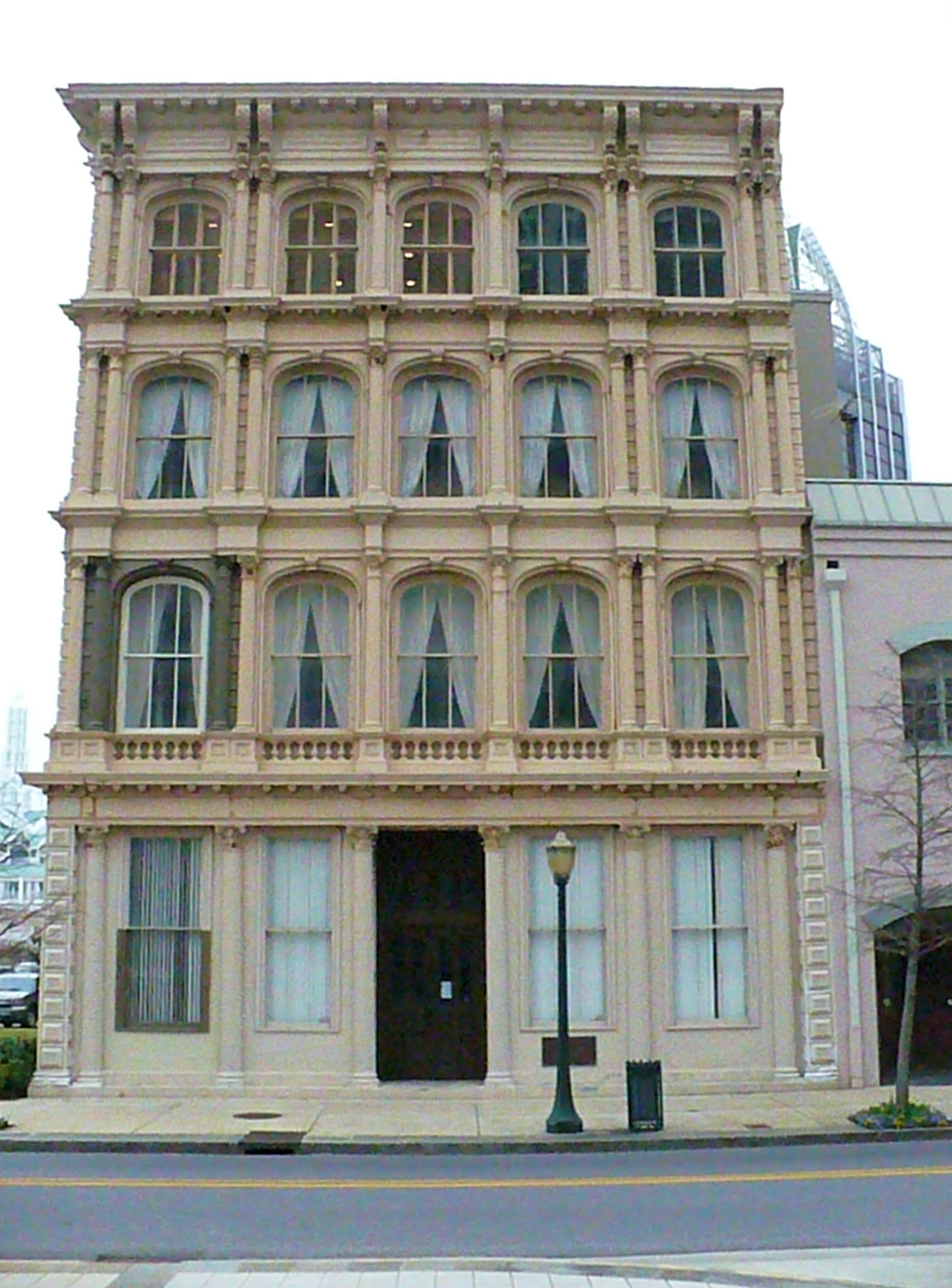 The Brisk and Jacobson Store in Mobile, Alabama. Entire front facade is cast-iron. Built in 1866. On the National Register of Historic Places.